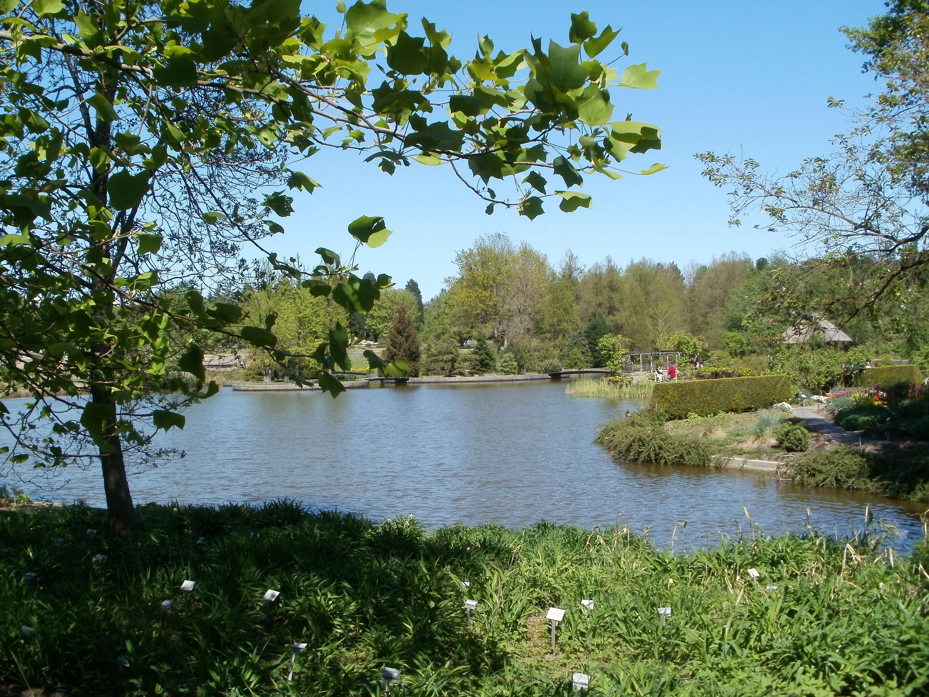 New Garden in Hamburg-Osdorf, Germany.